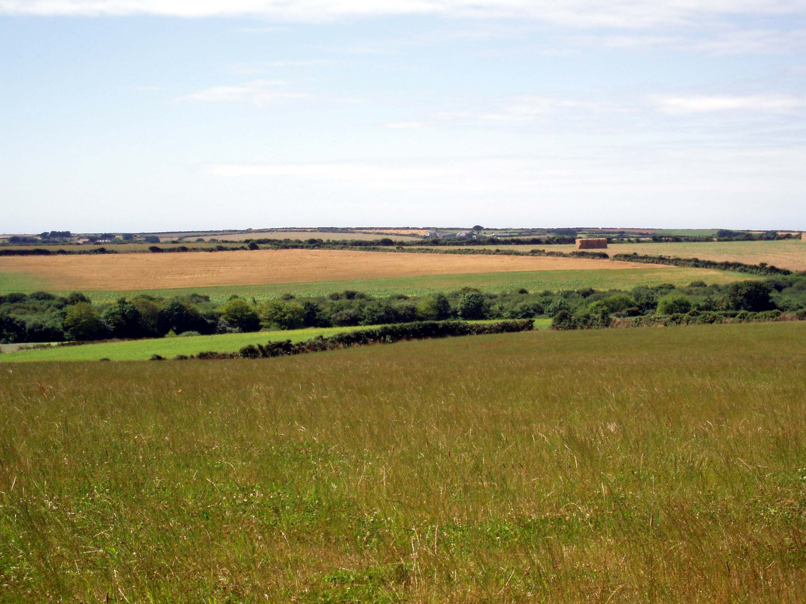 Farmland cut for hay taken near St Buryan.